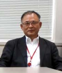 Osamu Akiyama, Chairman of the Administrative Grievance Resolution Promotion Council, Ministry of Internal Affairs and Communications, Takeshi Erikawa, Katsuhisa Ono, Mitsuo Kobayakawa, Shigeru Takahashi, Kunihiro Matsuo and Masago Minami, Members of the Administrative Grievance Resolution Promotion Council, Ministry of Internal Affairs and Communications, posed for the photo on September, 2015.